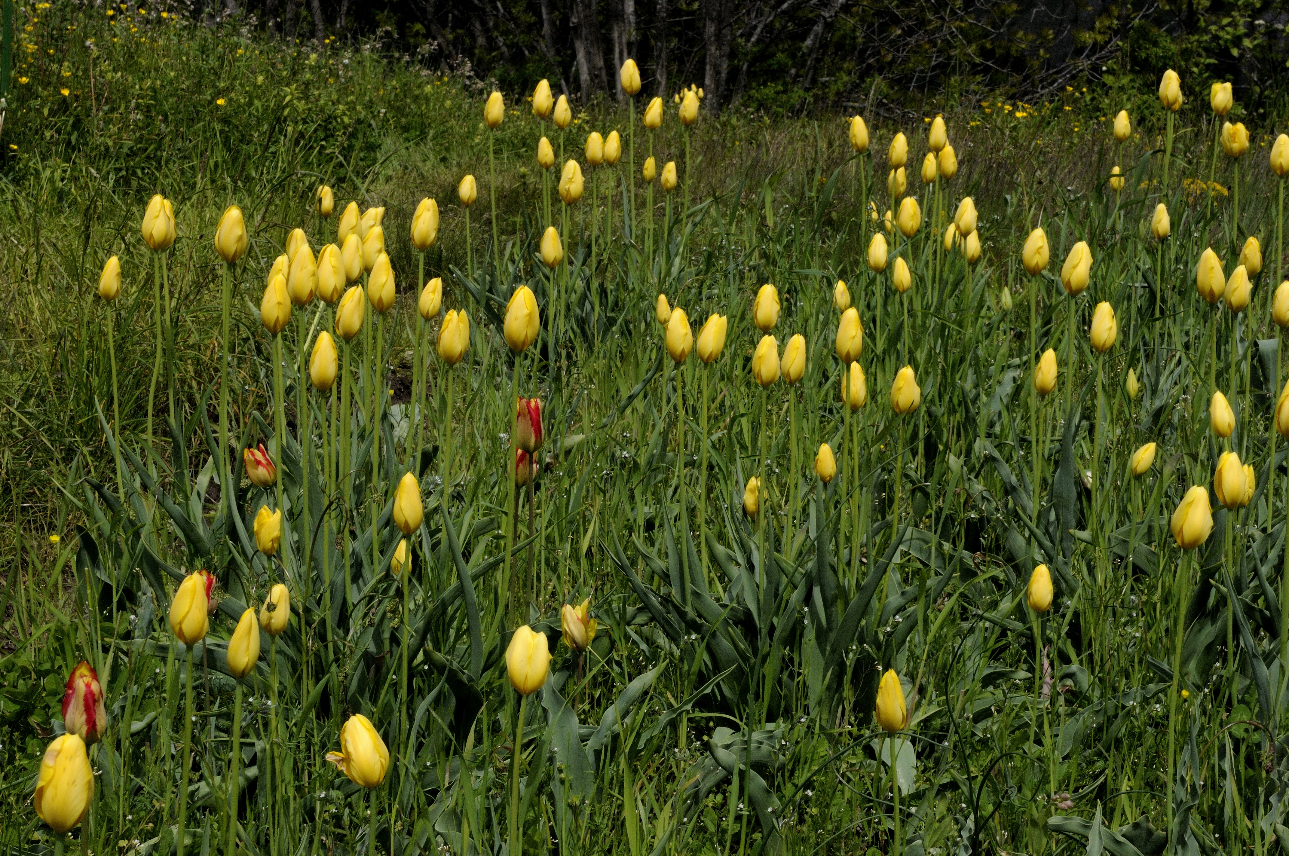 Tulipa grengiolensis, Grengiols/Valais/Switzerland